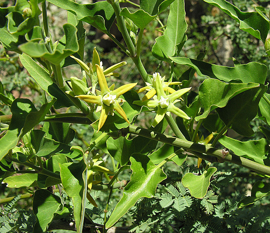 A milkweed vine known as Latex Plant or locally as Pandero. From the drylands of northern Argentina. In context at